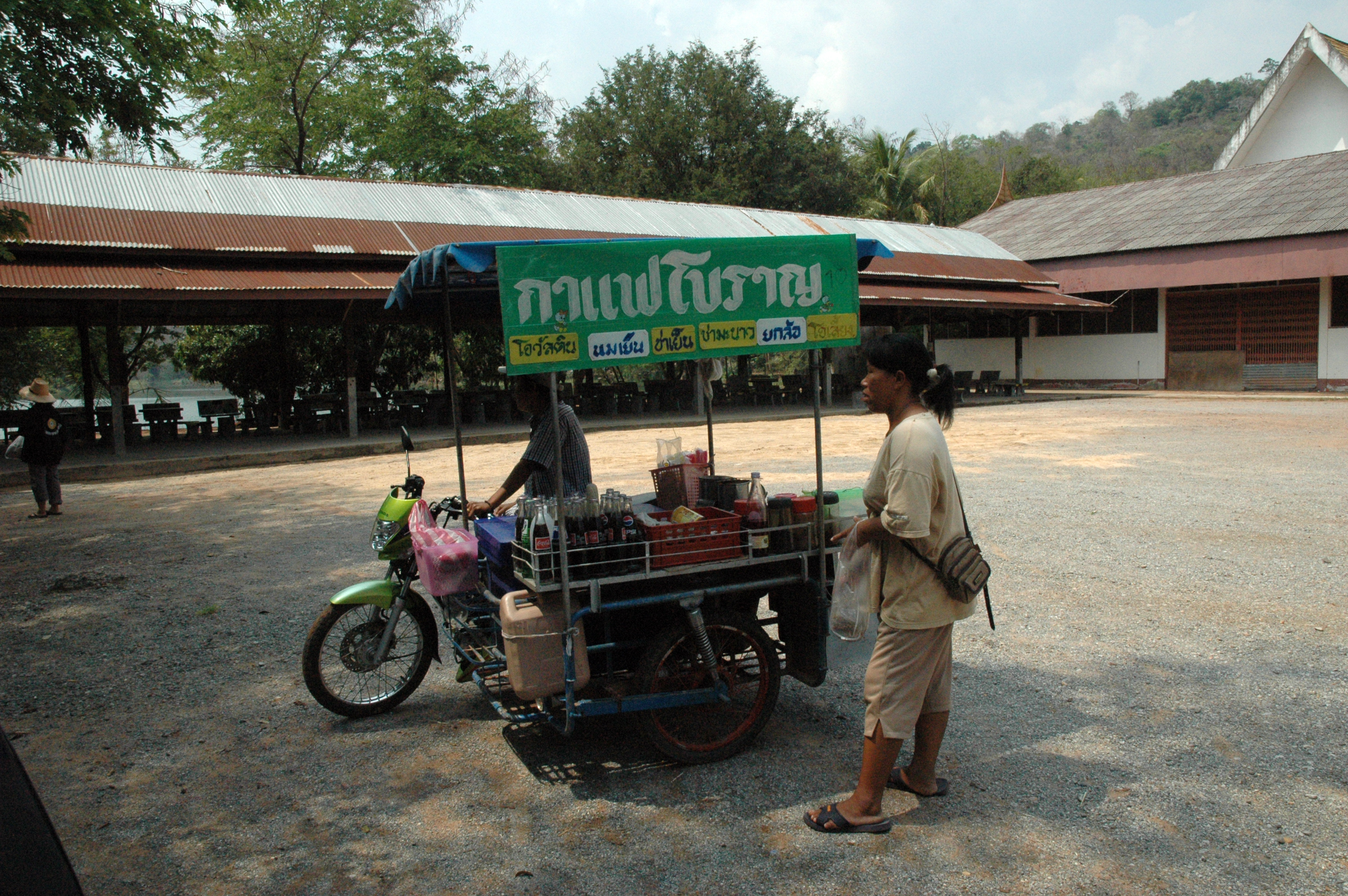 Drink Vendor Motorbike with Sidecar (Sign reads: "Traditional Coffee") - Temple on the Mountain, Kalasin, Thailand